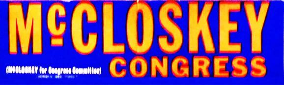 Pete McCloskey congressional campaign